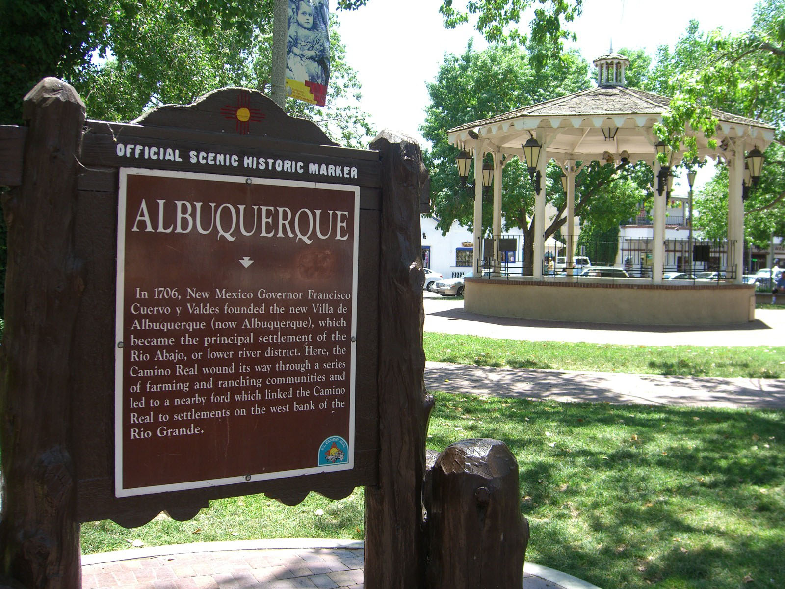 The Old Town District in Albuquerque, New Mexico. This photo was created by Luigi Novi. It is not in the public domain, and use of this file outside of the licensing terms is a copyright violation.